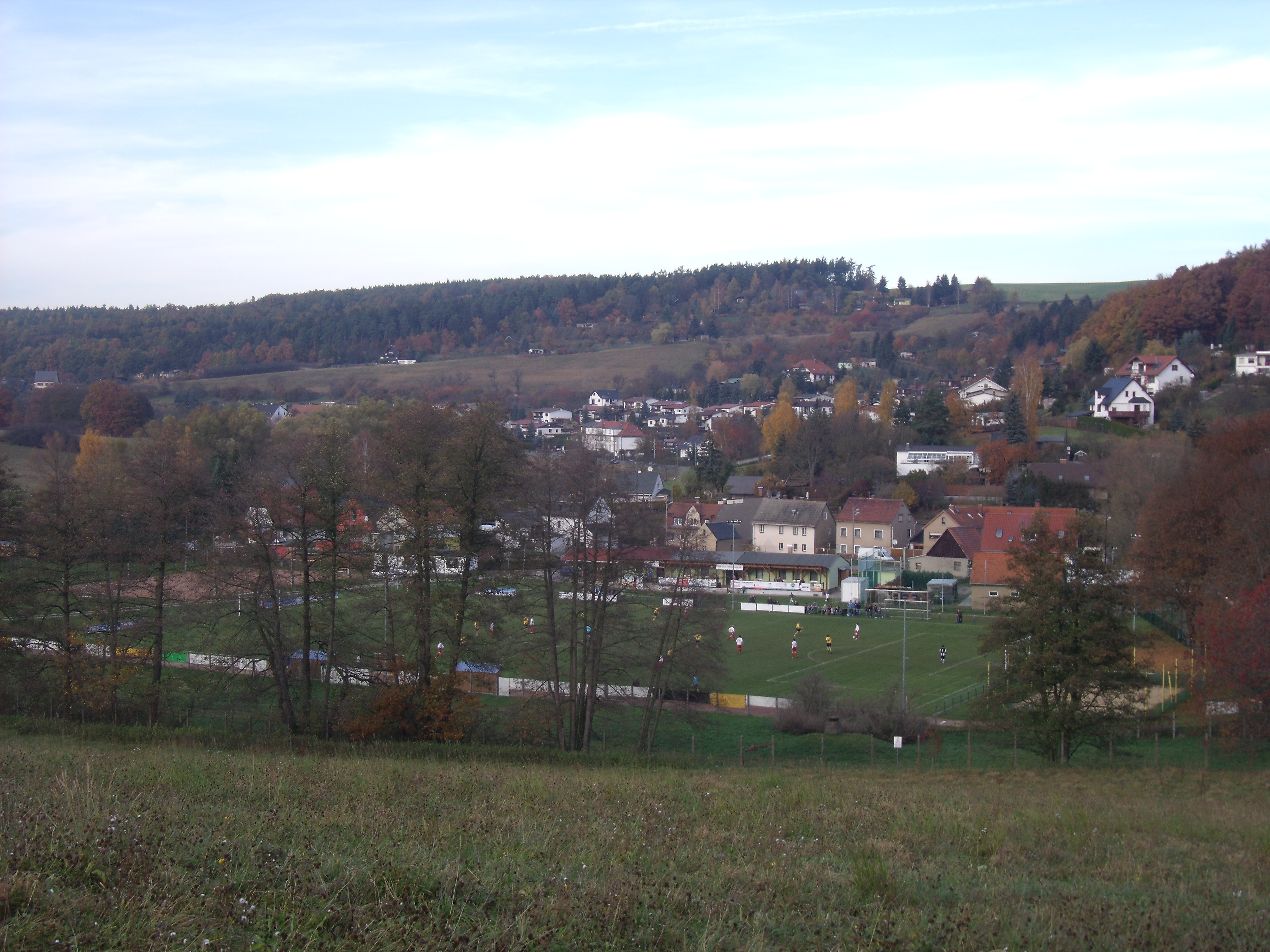 View of the sports ground of TSV Gera-Westvororte in Scheubengrobsdorf, Gera, Germany, in November 2011